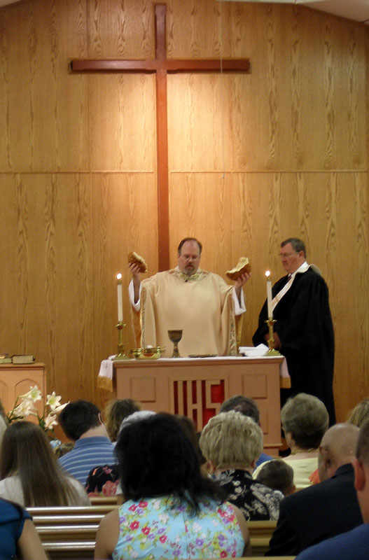 Dr. Gregory S. Neal, UM Elder, Presides at the Eucharist